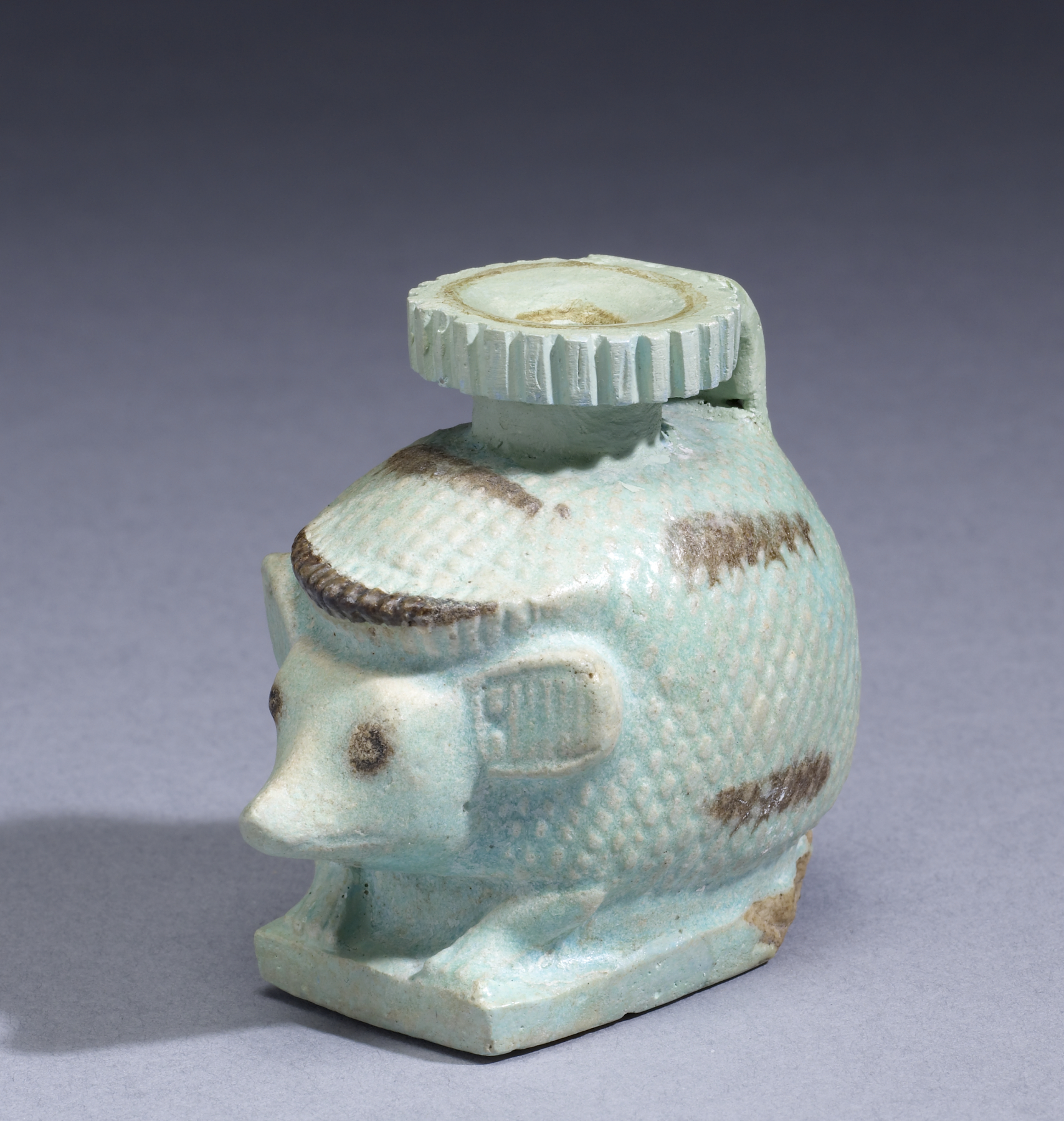 The cosmetic vessel consists of a hedgehog shaped body on a small rectangular plinth, a neck with large lip, and a handle on top of the animal's back. The prickly body of this hedgehog is shown by a cross-hatched pattern. The eyes and the markings on the body have been added in a brownish-black glaze. The head has a long extended snout, slightly protruding eyes, as well as large ears that set up attentively, and with vertical line hatching. The protruding fringe above the forehead is also accentuated with black color. Perfume of cosmetic containers in the shape of a hedgehogs became common during the 6th and 5th century BC, and were probably invented in the Greek colony of Naukratis and the Western Delta region of Egypt. However, hedgehog representation on ships, and hedgehog statuettes were common in ancient Egypt from the 3rd millennium BC. His body armor symbolized protection, and in addition he was seen as one of the sun gods special animals.